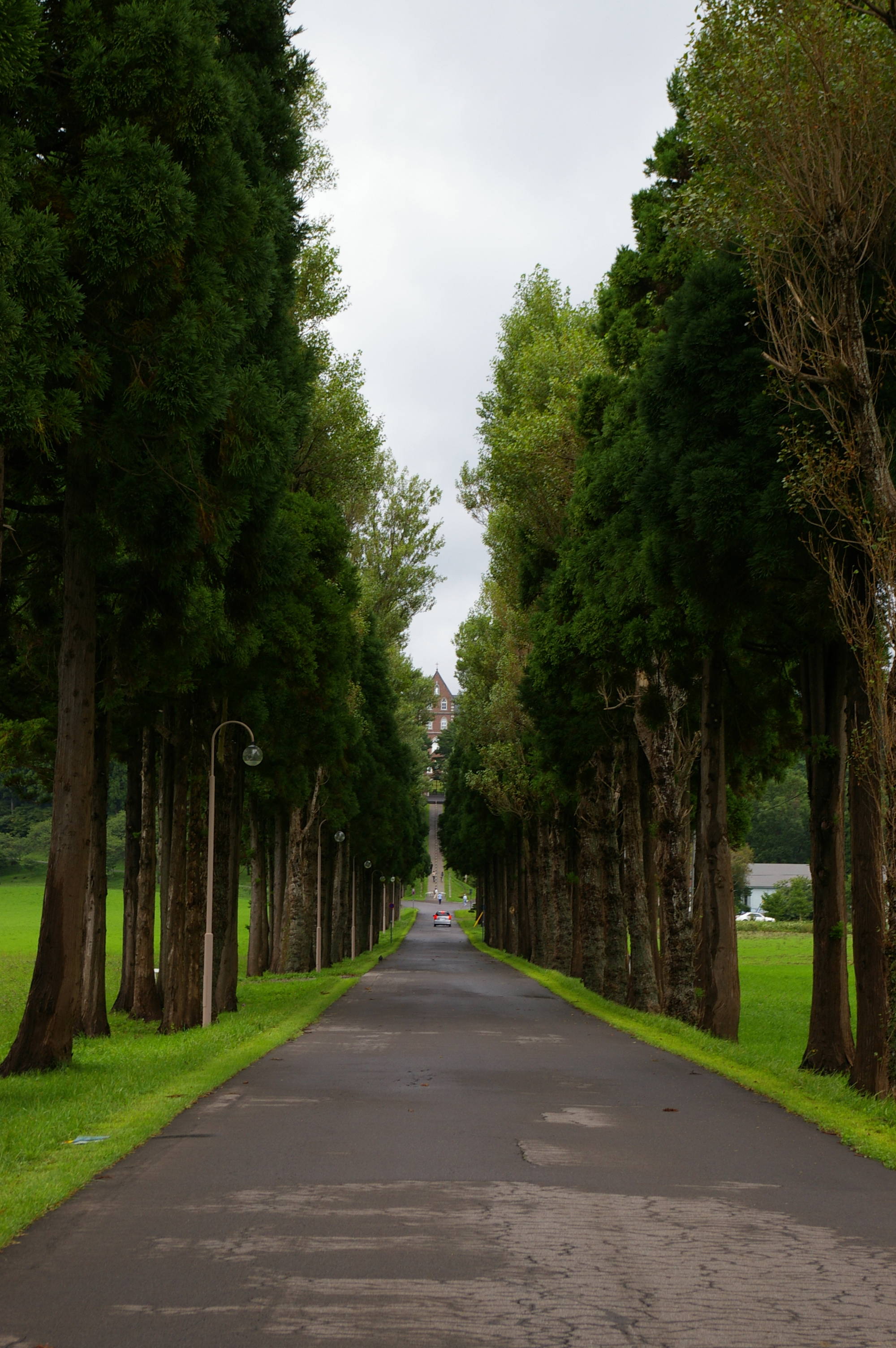 Cedar avenue to the entrance of Tobetsu Trappist Monastery in Hokuto City, Hokkaido, Japan